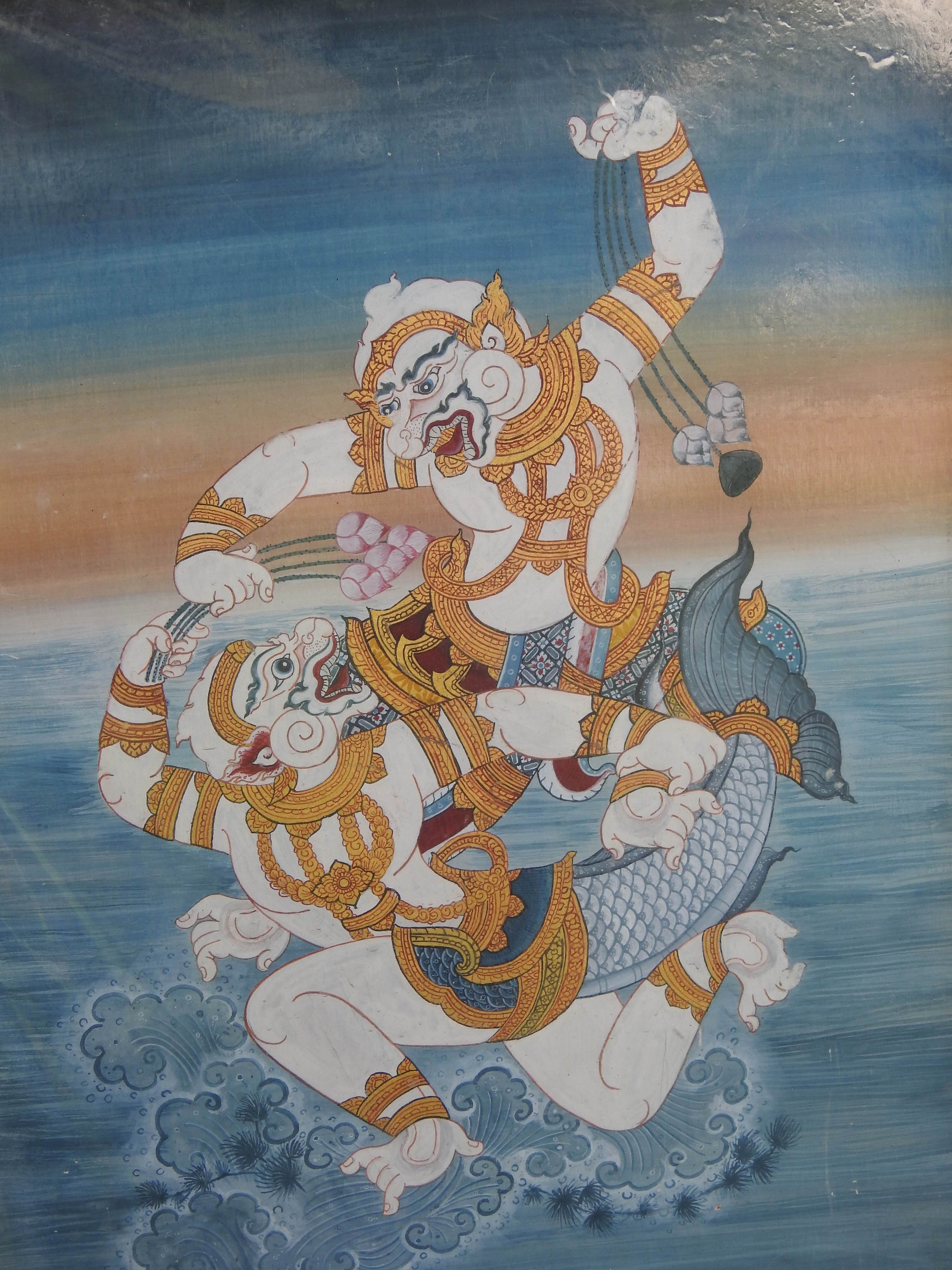 The Un Ai Rak Khlai Khwam Nao or Love and Warmth at Winter's End festival on January 19, 2019